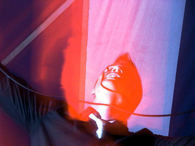 Dead Poetic performing at Cornerstone Festival in 2003.